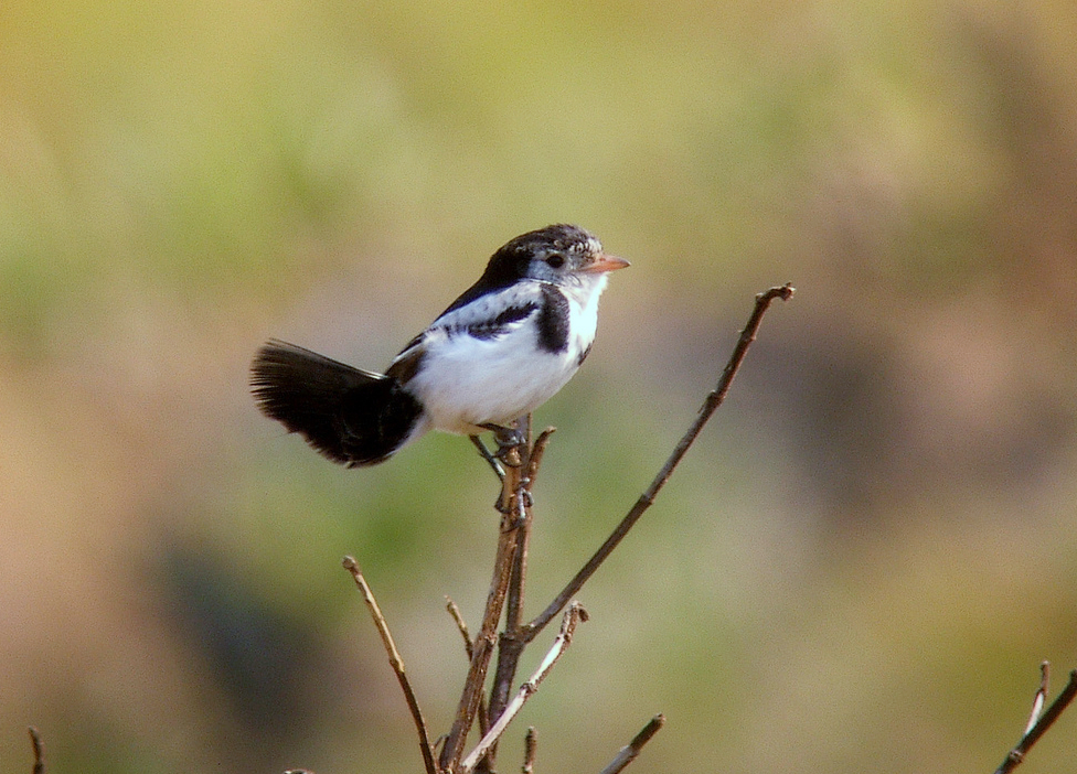 Serra da Canastra, Minas Gerais, Brazil. 15 October 2007. Digiscoped with a Swarovski ATS 65 HD and a Samsung Digimax V70.